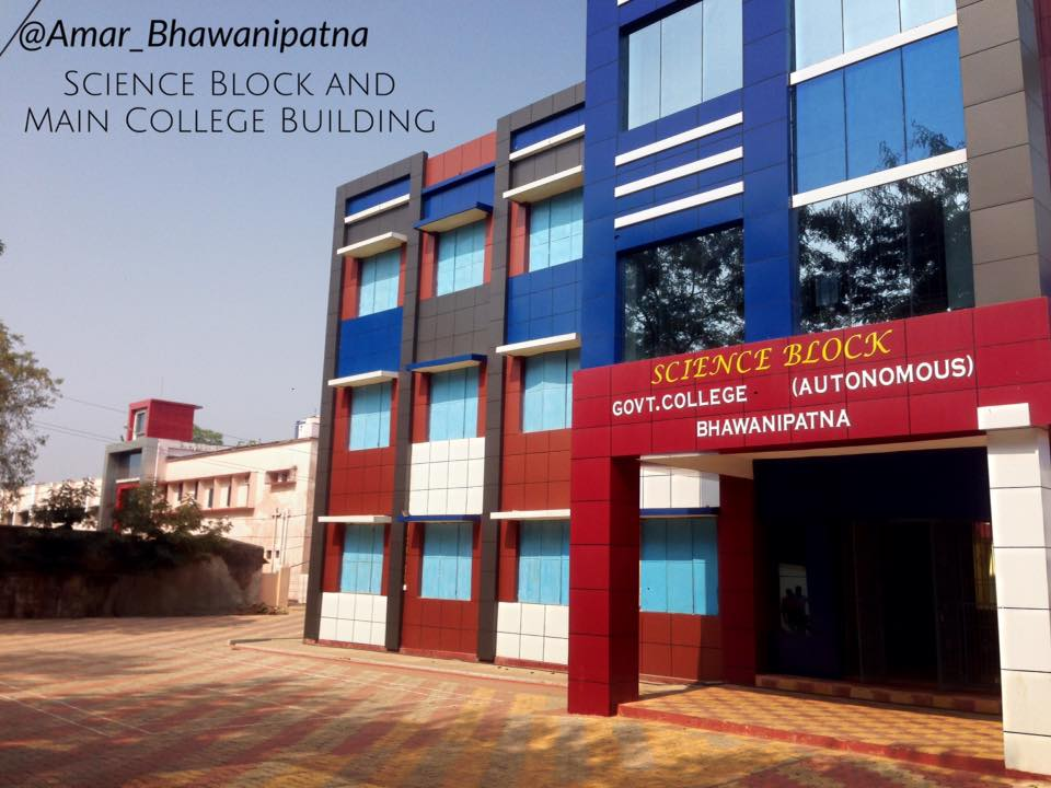 Autonomous College BPT